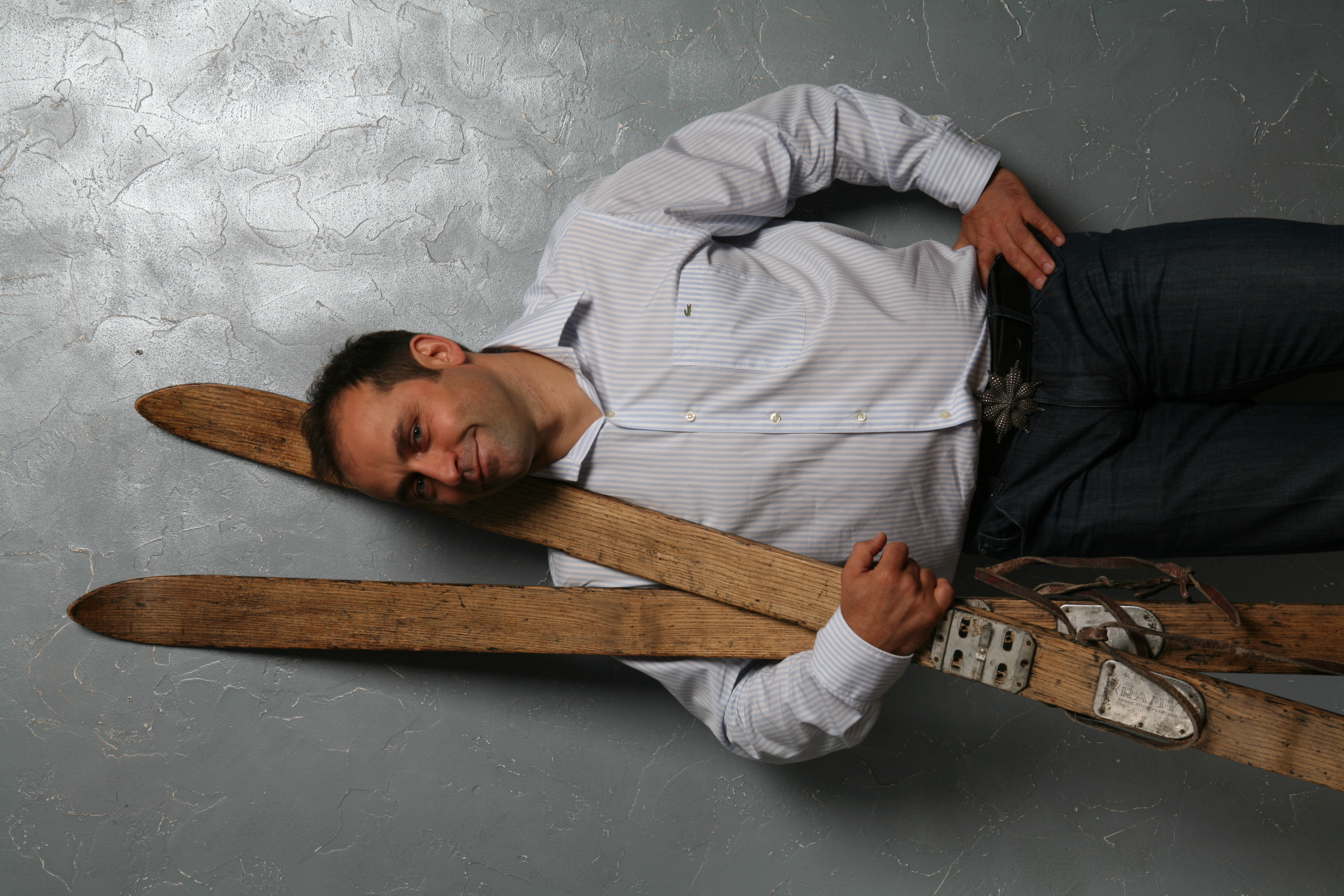 Dmitry Svishchev, candidate in Master of Sports in Alpine skiing, one of the founders of the country's first professional ski club "New League", vice president of ski and snowboard Russian Federation, businessman, a State Duma deputy.